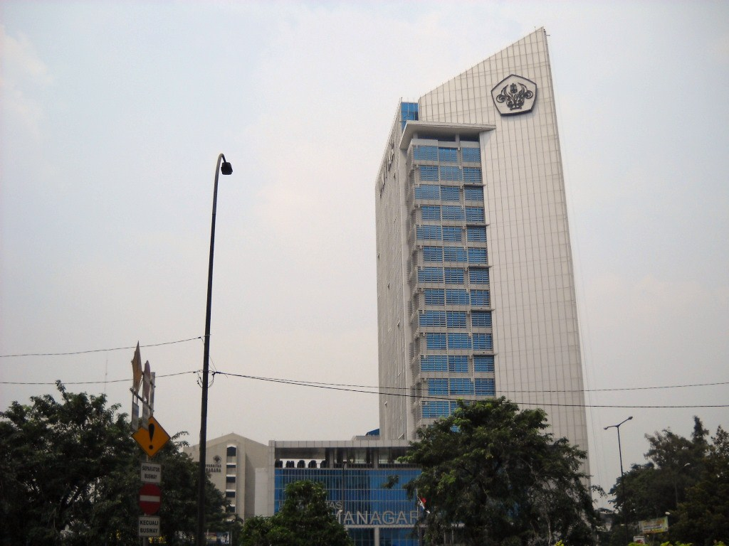 Tarumanagara University, Jakarta.